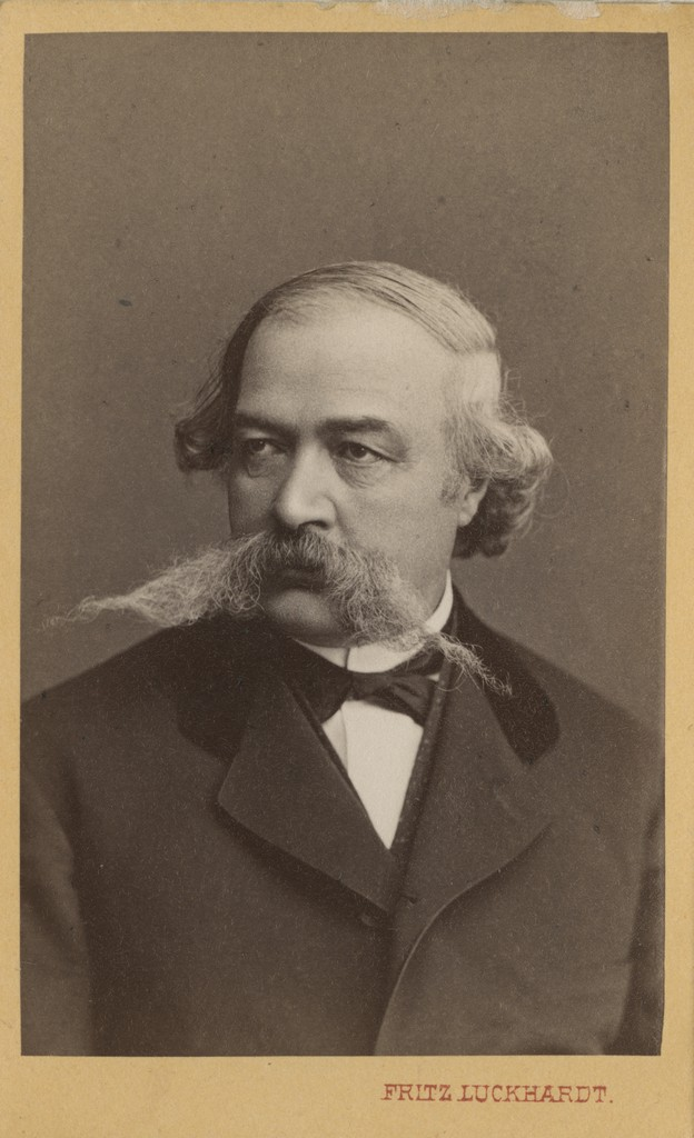 1815-1879, Liivimaa maamarssal - - - 1815-1879, head of the Livonian Knighthood Autor / Author: Fritz Luckhardt, Leopoldstadt Viitekood / Reference code: EAA.1674.3.719.4 Kirje andmebaasis FOTIS / Description in the database FOTIS